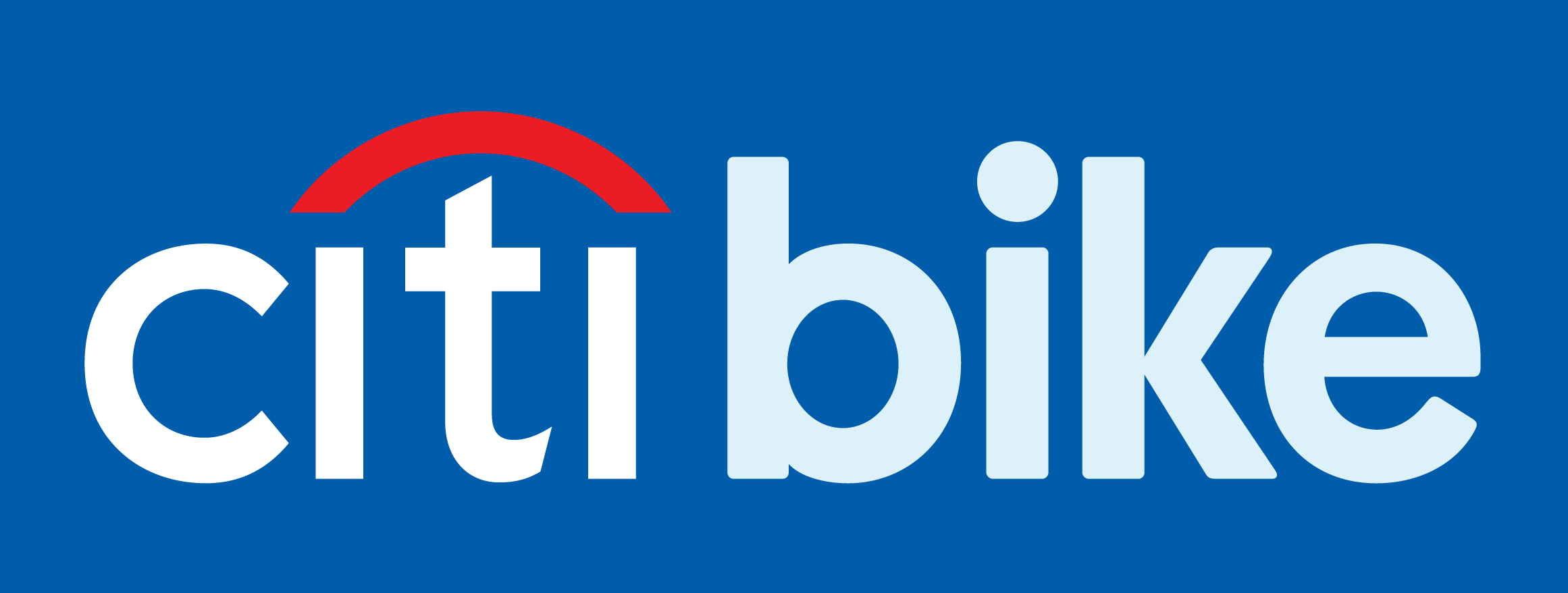 The logo of Citi Bike, an American public public bicycle sharing system.